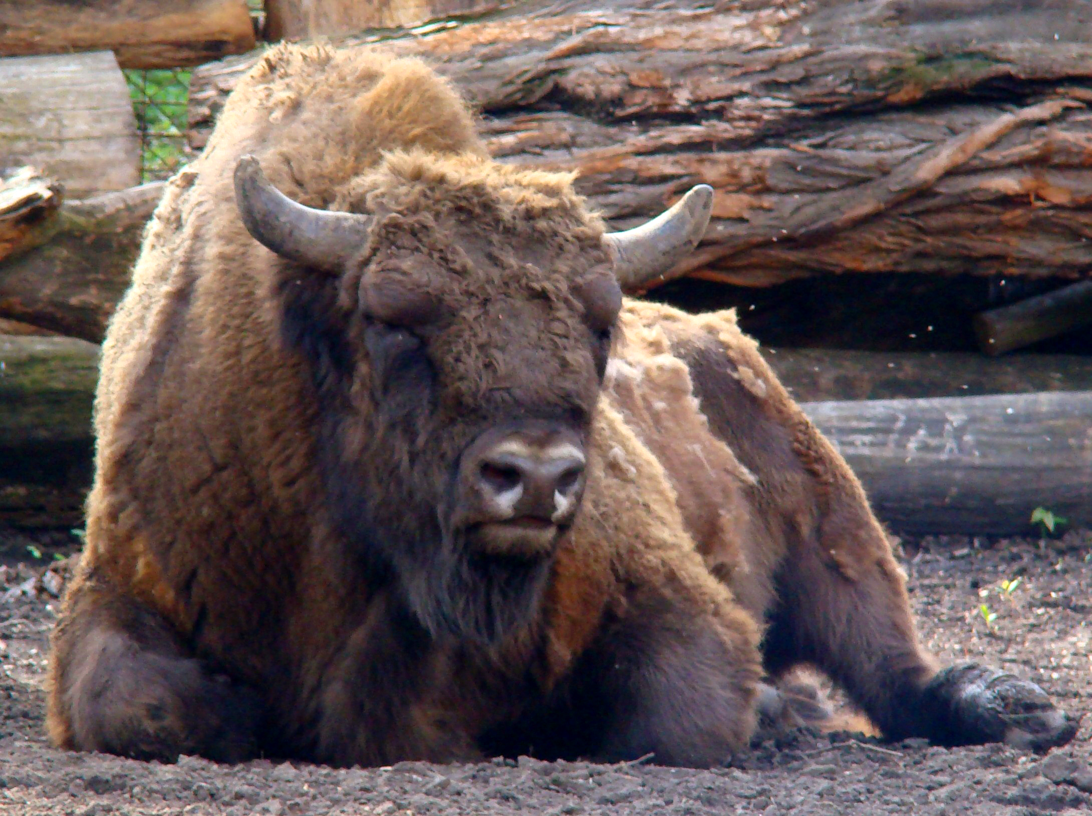 Bison bonasus in captivity (Poland)